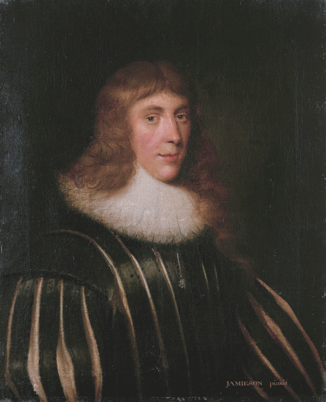 Alexander, 1st Lord Forbes of Pitsligo (d. 1636)*oil on canvas*71.6 x 58.6 cm*inscribed b.r.: JAMIESON pinxit